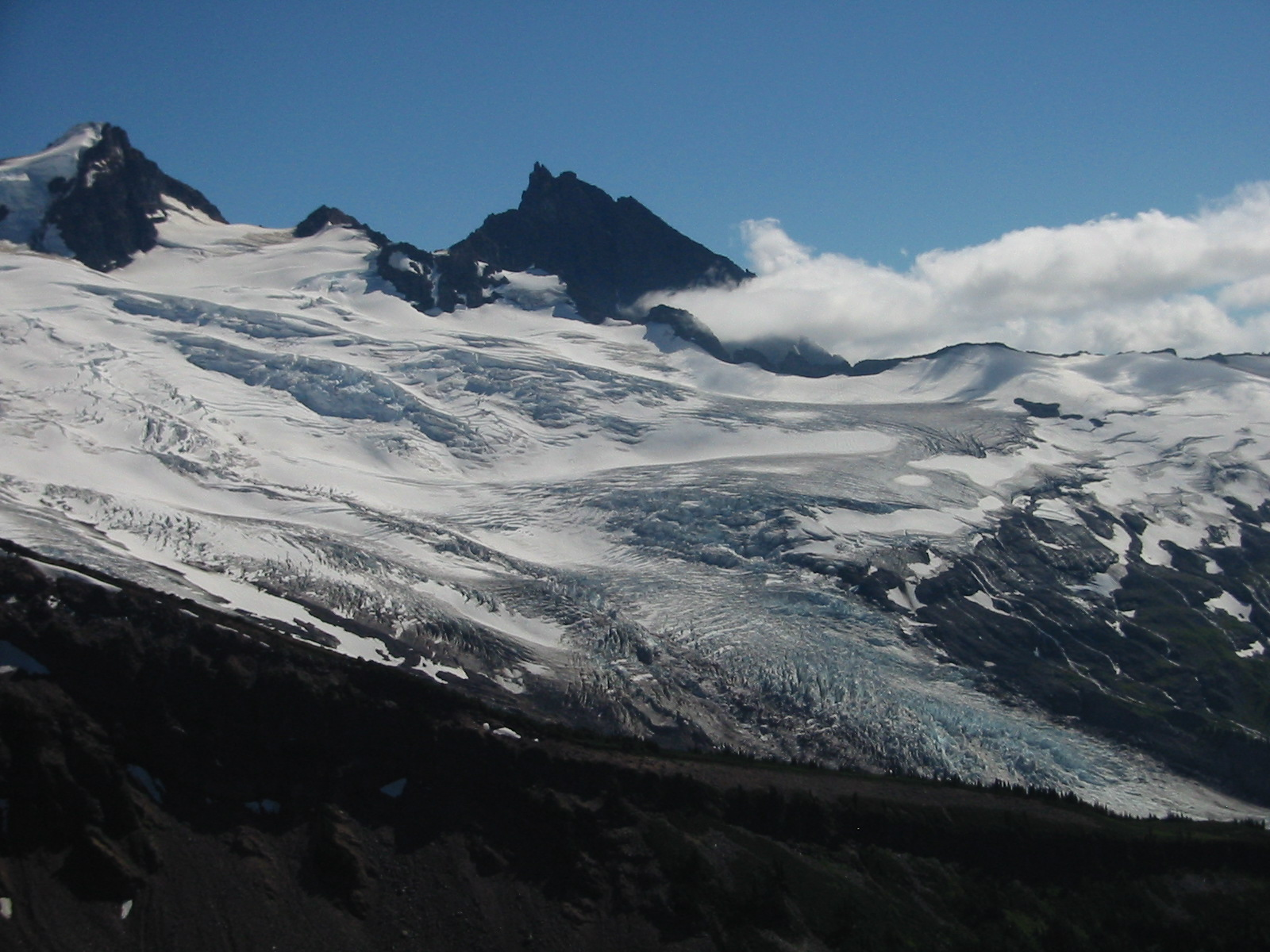 Coleman Glacier below Colfax Peak (left, 9443 feet) and Lincoln Peak (center, 9096 feet). The latter are two of the Black Buttes that are located on the southwest flank of Mount Baker.